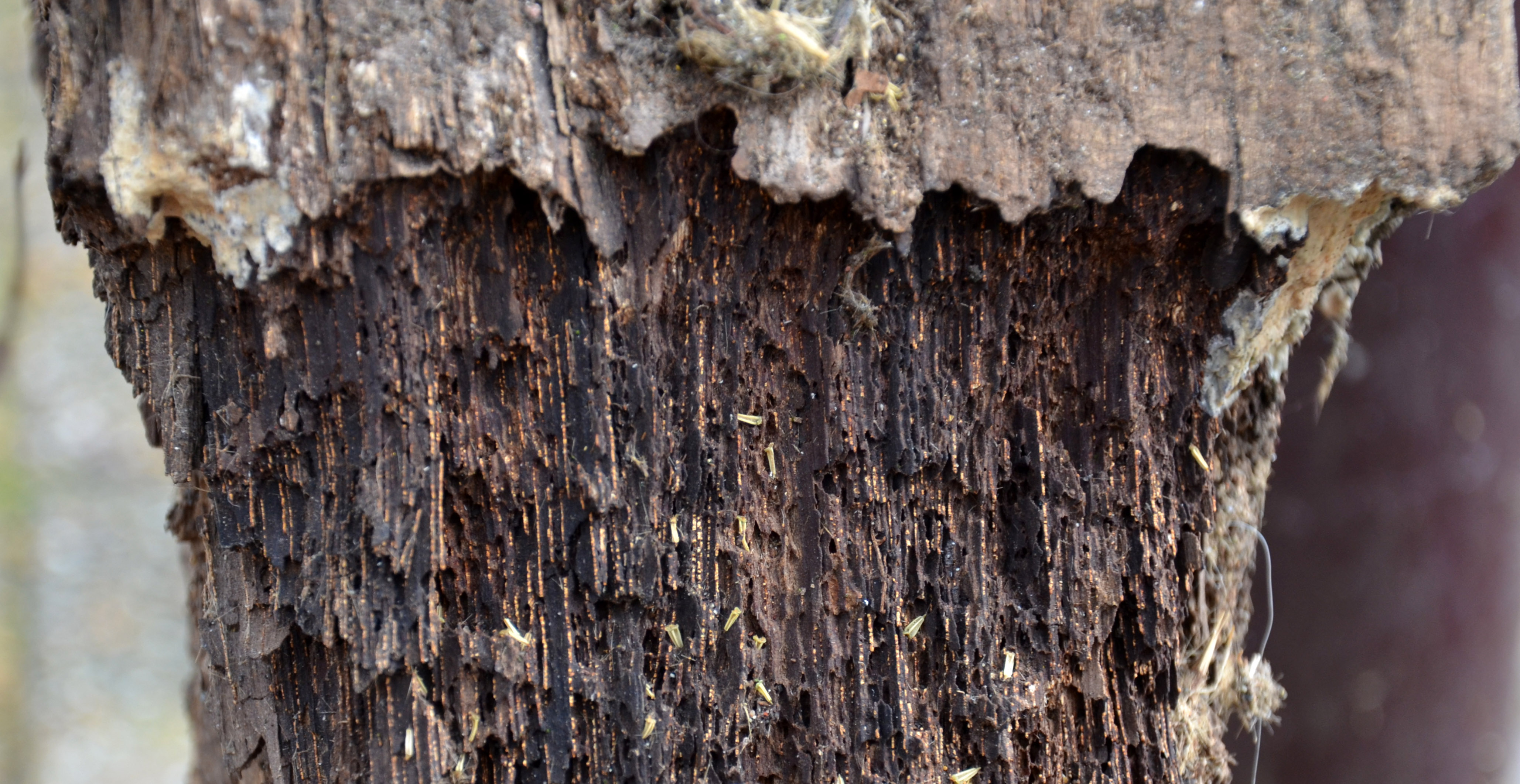 Wood preservation Treatment of wood (here mainly copper) have a limited effectiveness. This wooden stake eventually degrade in the soil after a few years of pesticide leaching by rain, and perhaps because of the adaptation process (natural selection) of bacteria and fungi boring. Some products have a longer lasting effectiveness (eg creosote), but have a high toxicity and generate greater risks for humans and the environment and less recycling old wood.